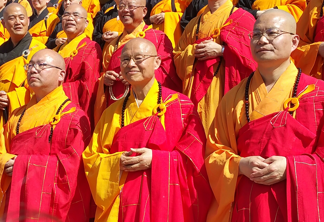 The three abbots of Fo Guang Shan Abbot Hsin Bau, Abbot Emeritus Hsin Ting, Abbot Emeritus Hsin Pei